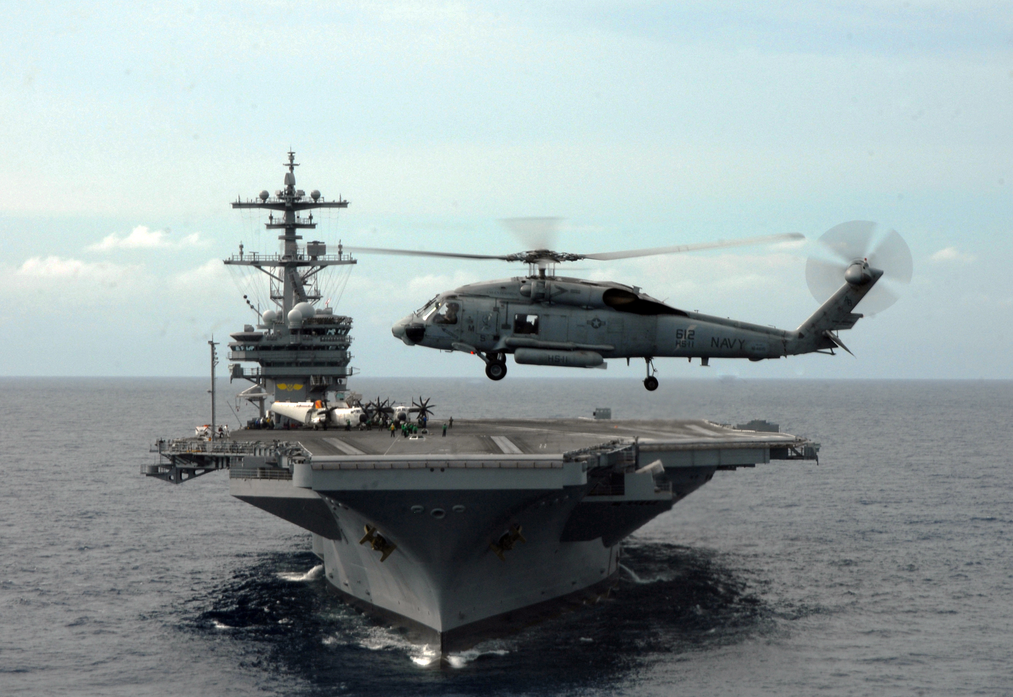 ATLANTIC OCEAN (June 7, 2009) An SH-60F Sea Hawk helicopter from the Dragonslayers of Helicopter Anti-Submarine Squadron (HS) 11 conducts flight operations from the aircraft carrier USS George H. W. Bush (CVN 77). George H. W. Bush is on a scheduled underway period in the Atlantic Ocean. (U.S. Navy photo by Mass Communication Specialist 1st Class Demetrius L. Patton/Released)